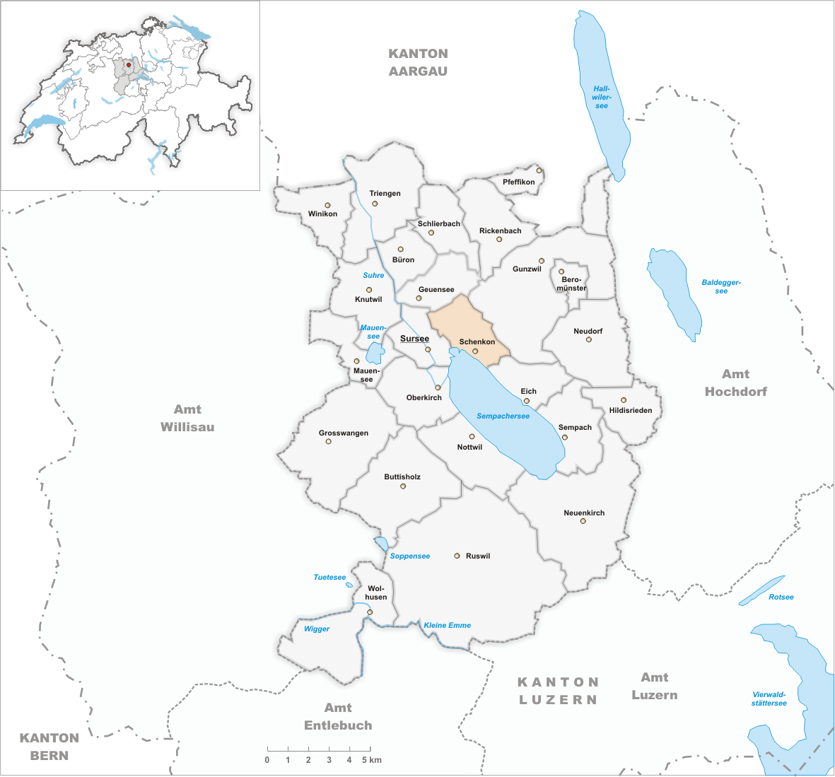 Municipality Schenkon